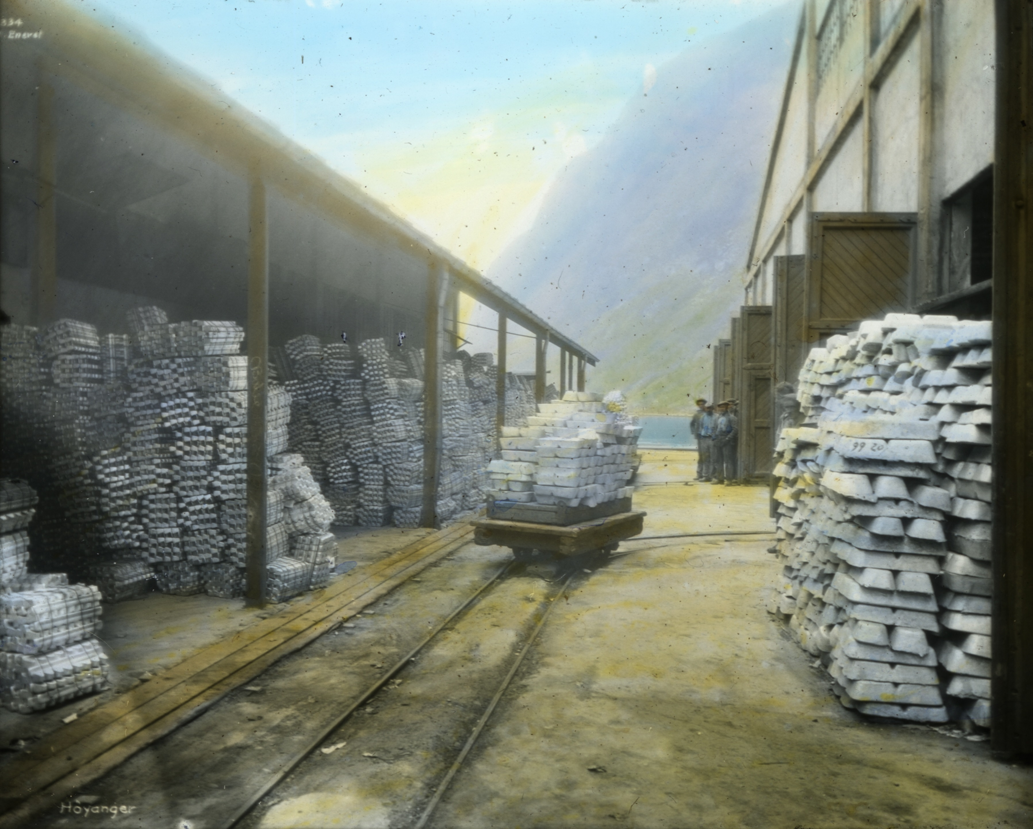 Aluminum ingots are stacked under cover and on a pallets in Norwegian Aluminium Company A/S (NACO) in Høyanger, Sogn og Fjordane, Norway. Hand colored slide from 1926.